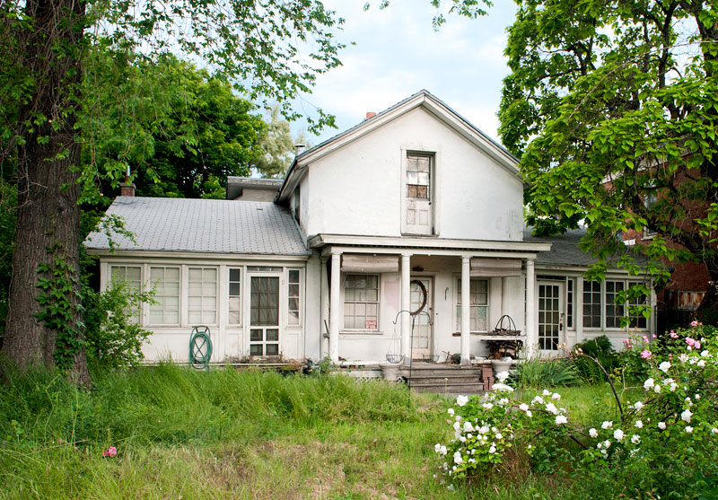 The John Kelly House in Salt Lake City, Utah, is listed on the Nationl Register of Historic Places.